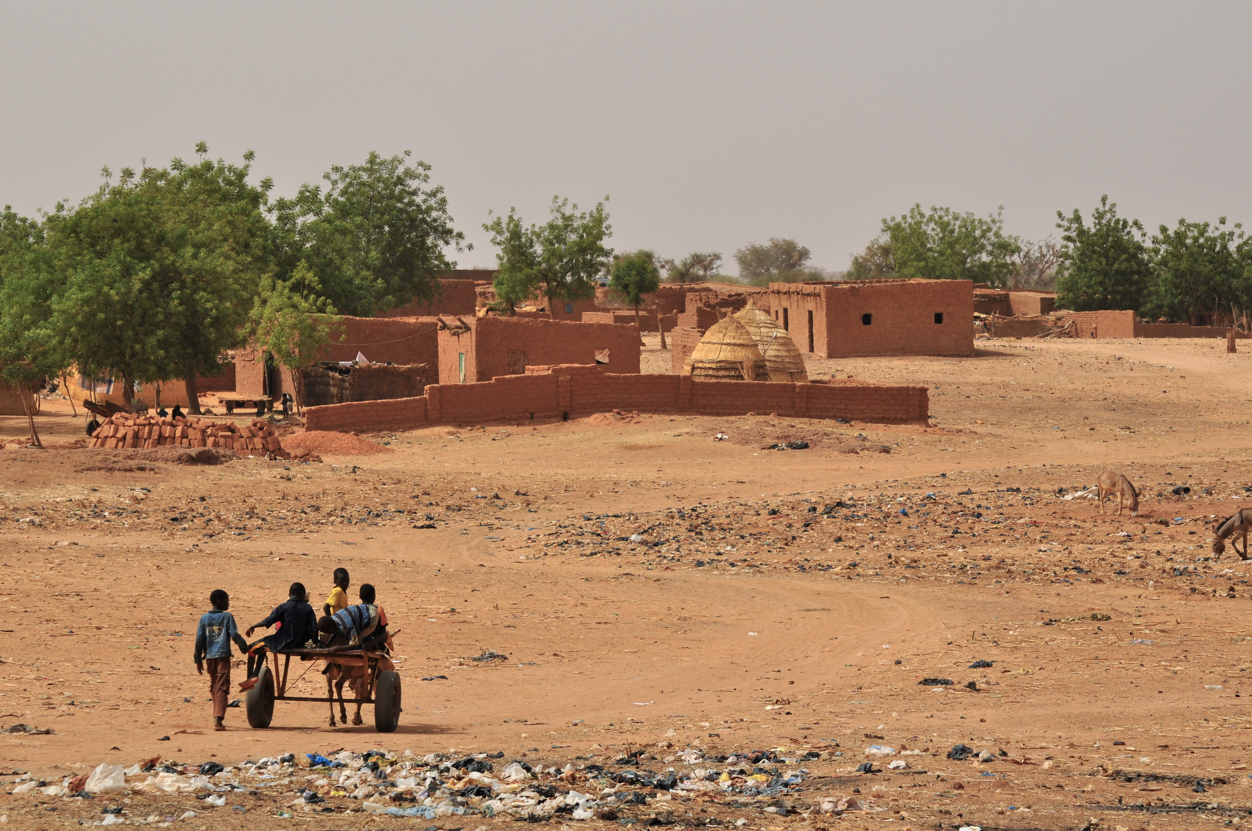 Children with a donkey cart returning home in Hamdallaye, Niger (Commune of Hamdallaye, Kollo department, Tillabéri region).